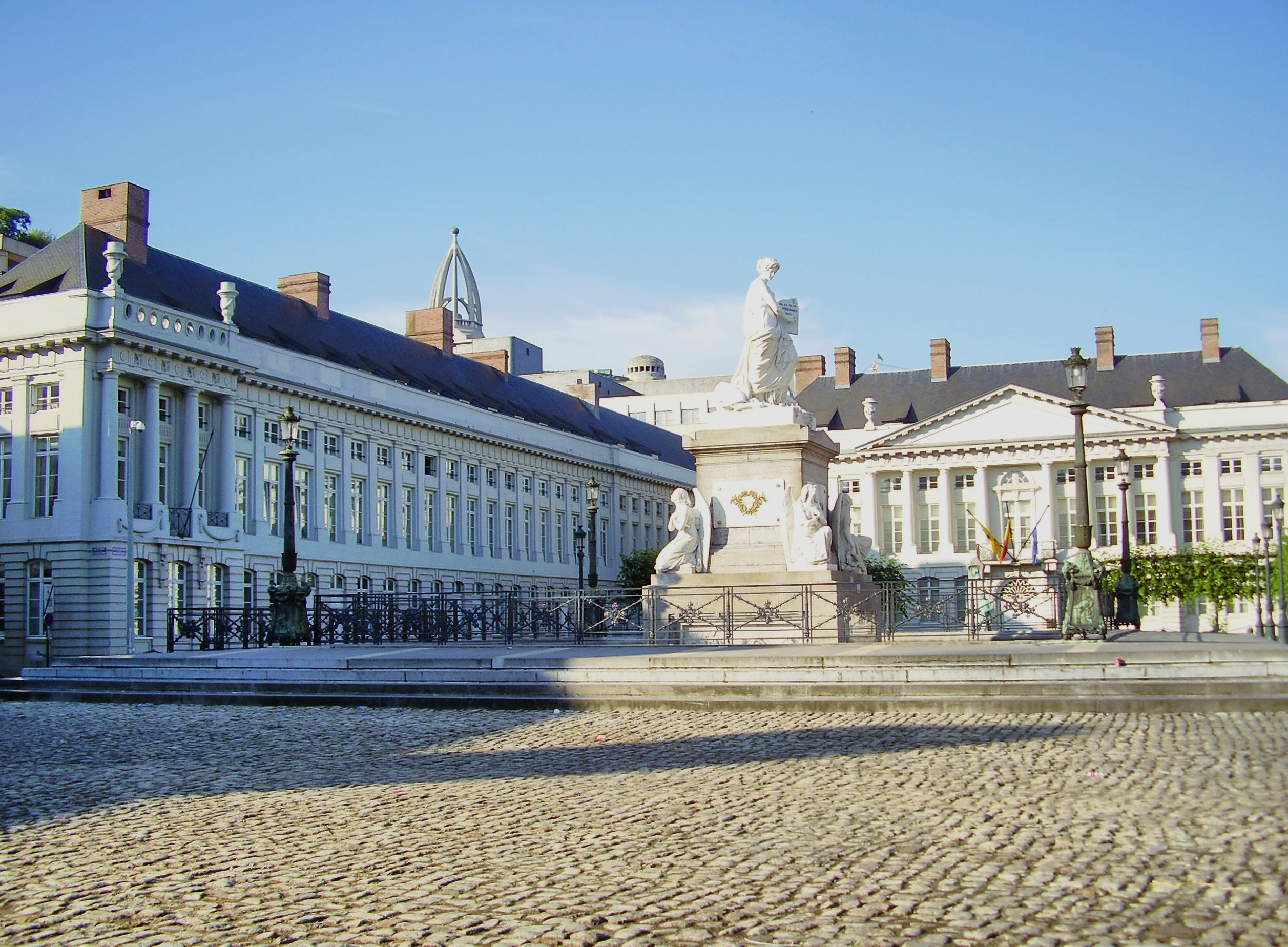 Description: Place des Martyrs, (Bruxelles) Author: User:Ben2 Date of creation: 18 août 2006 Source: Photo personnelle